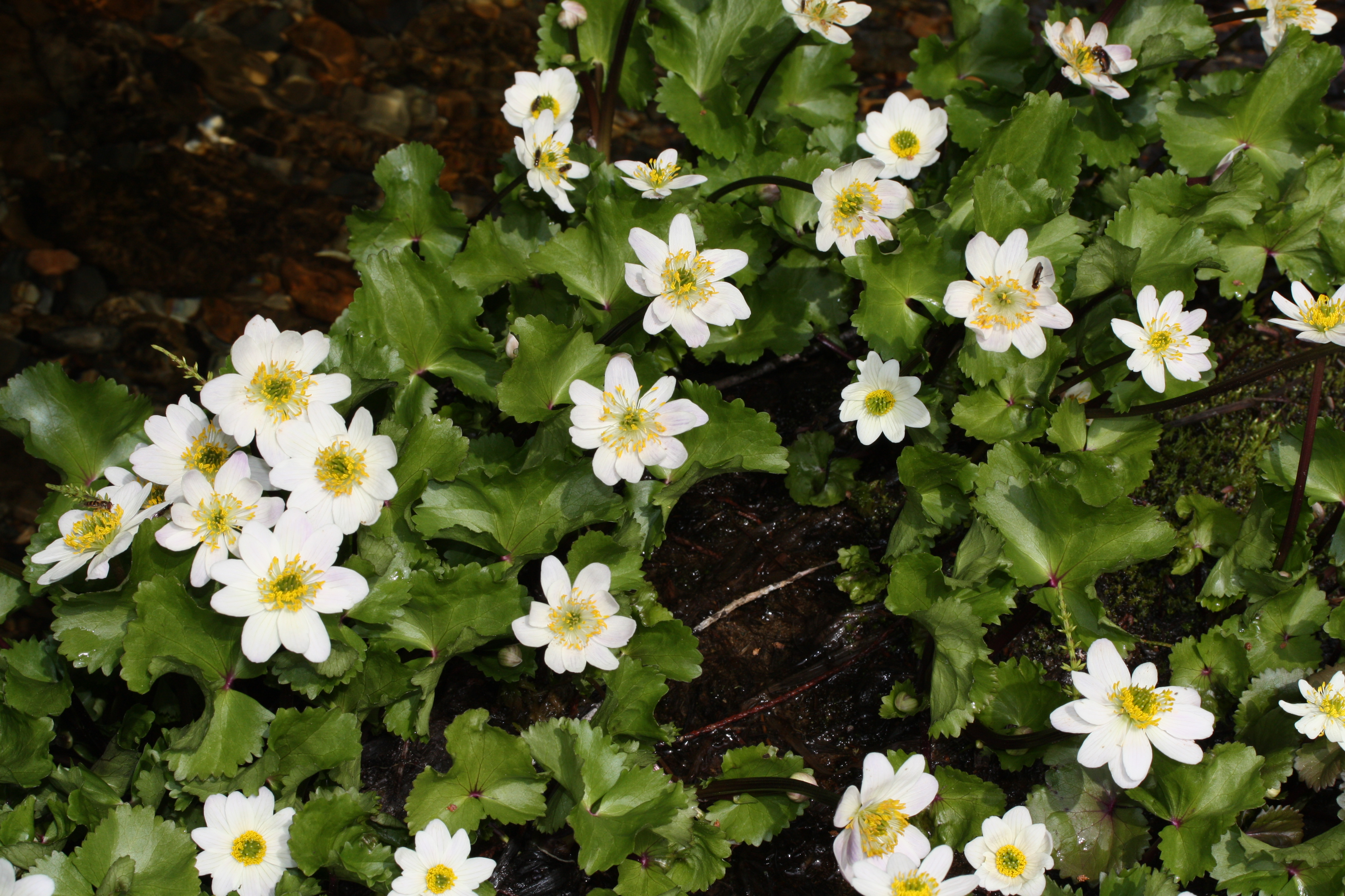 White Marsh Marigold, Elkslip